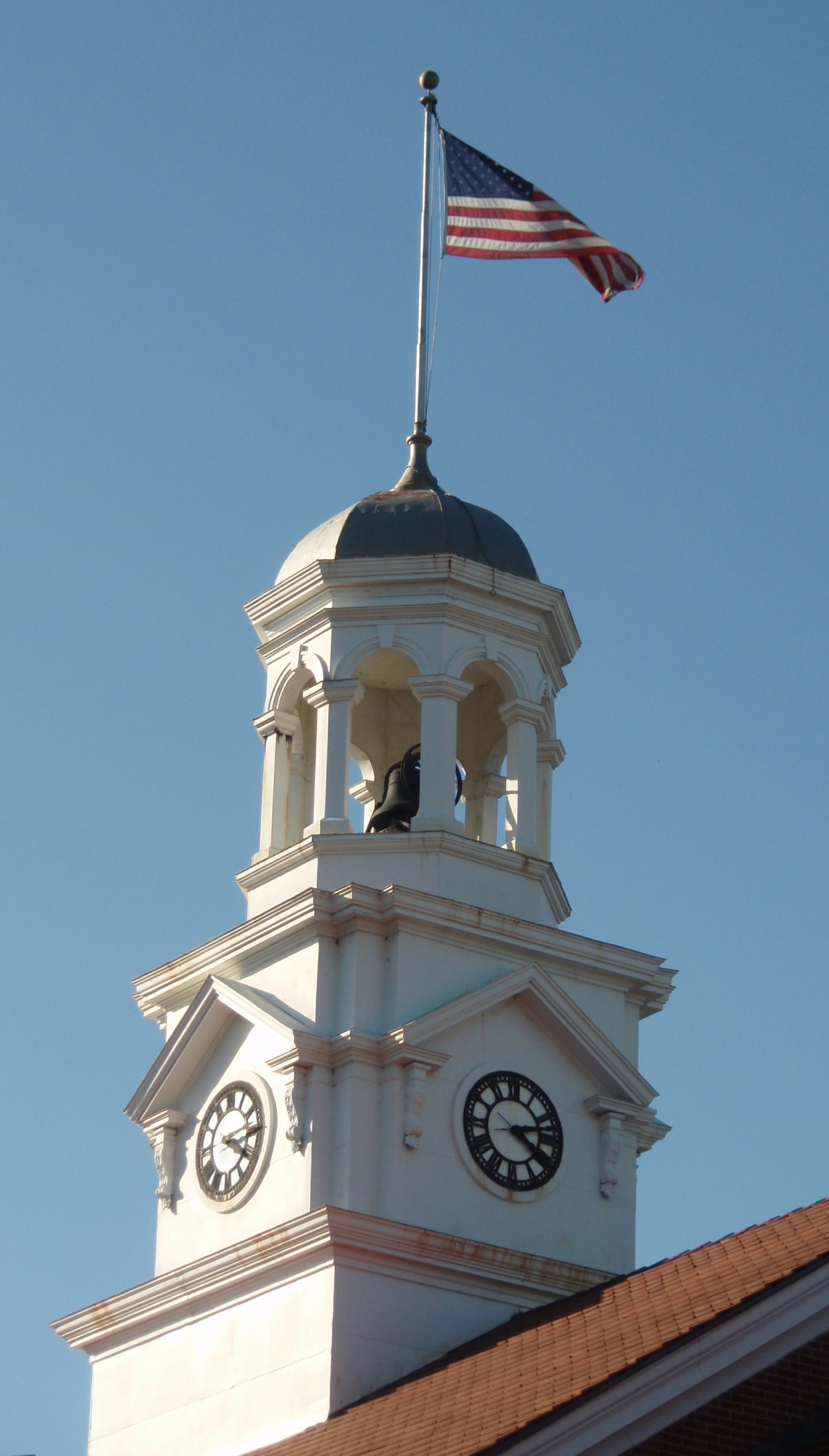 Clock tower of the Cannon County Courthouse in Woodbury, TN